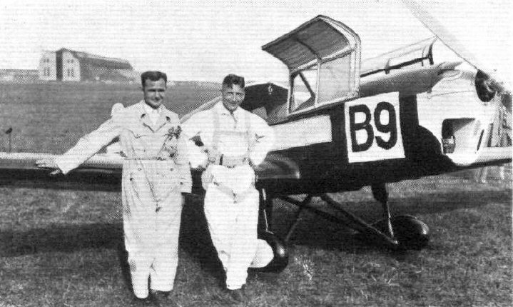 Fritz Morzik (left) and Reinhold Poss (right) - winners of the 3rd and 2nd places in the Challenge 1932 contest, by the Poss' aircraft Klemm Kl 32.